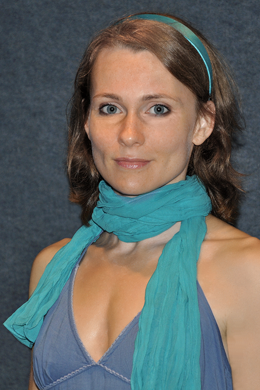 Laura Ruttkay a Hungarian actress